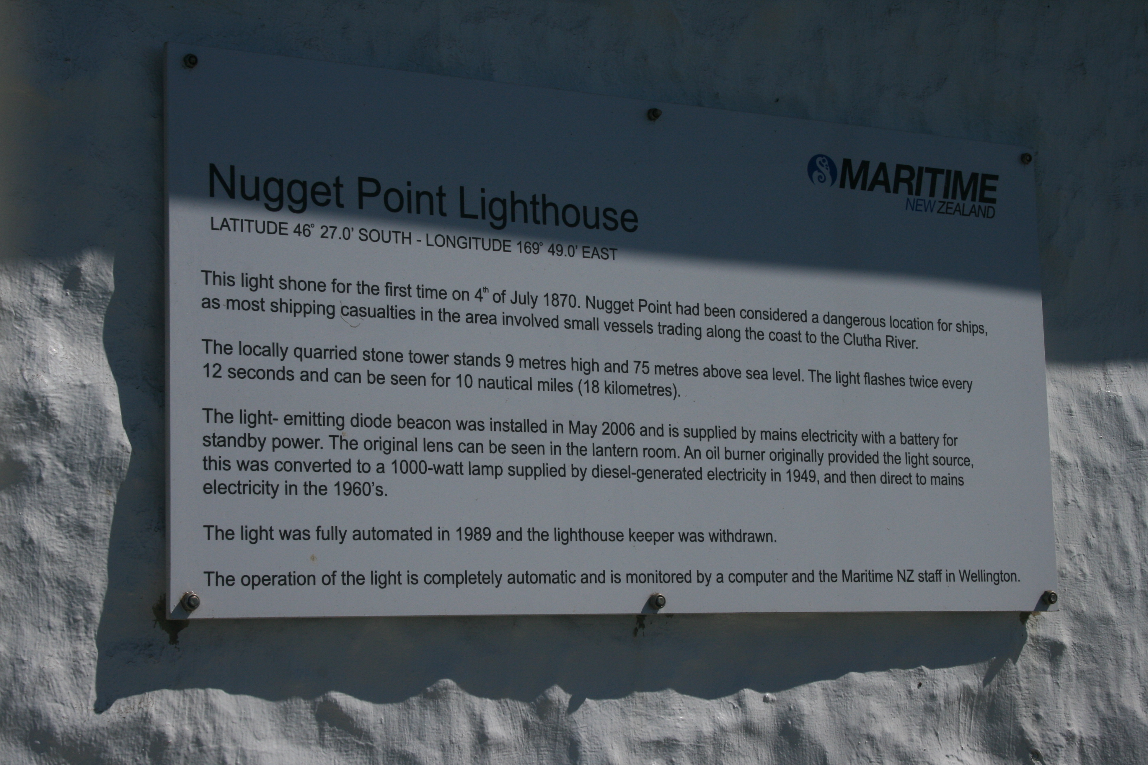 Nugget Point sign